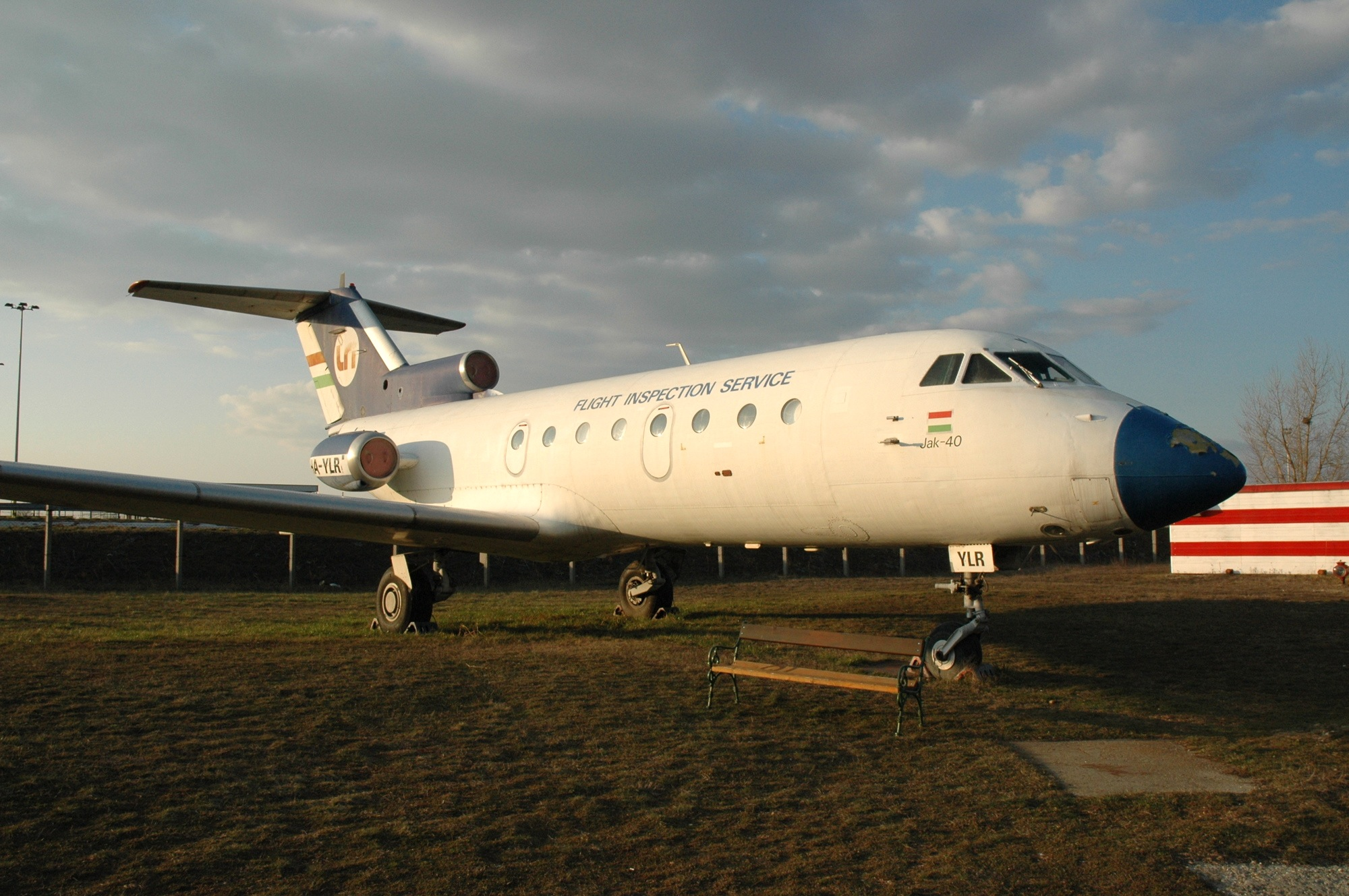 Yakovlev Yak-40 (registered HA-YLR for Hungarian Flight Inspection Service)